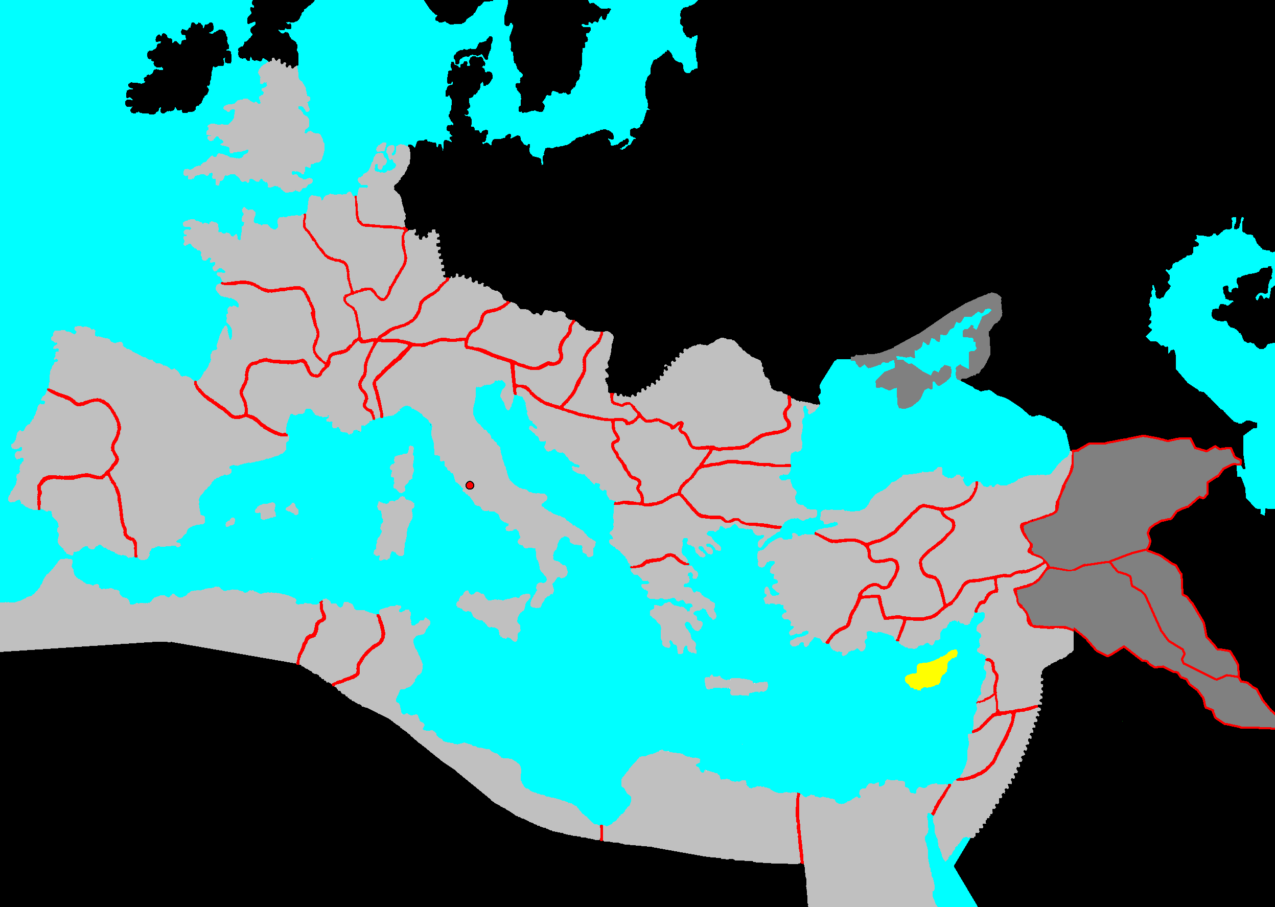 Description: provinces of the Roman Empire (Imperium Romanum) Source: own work Date: December 2005 Author: --Immanuel Giel 12:48, 13 December 2005 (UTC) Other versions: none